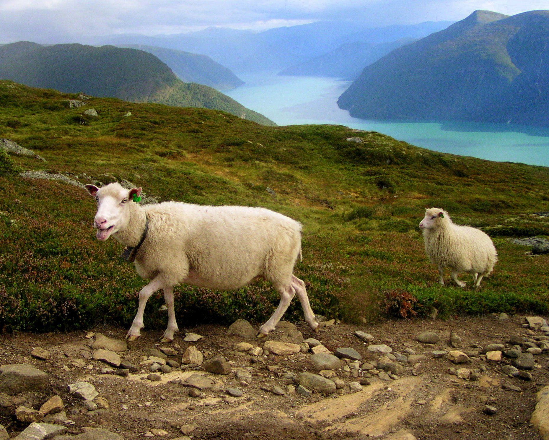 Met these sheep while hiking this summer in Norway.